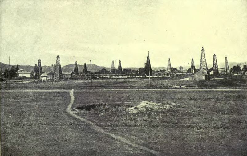 Oil wells in Campina, Romania.